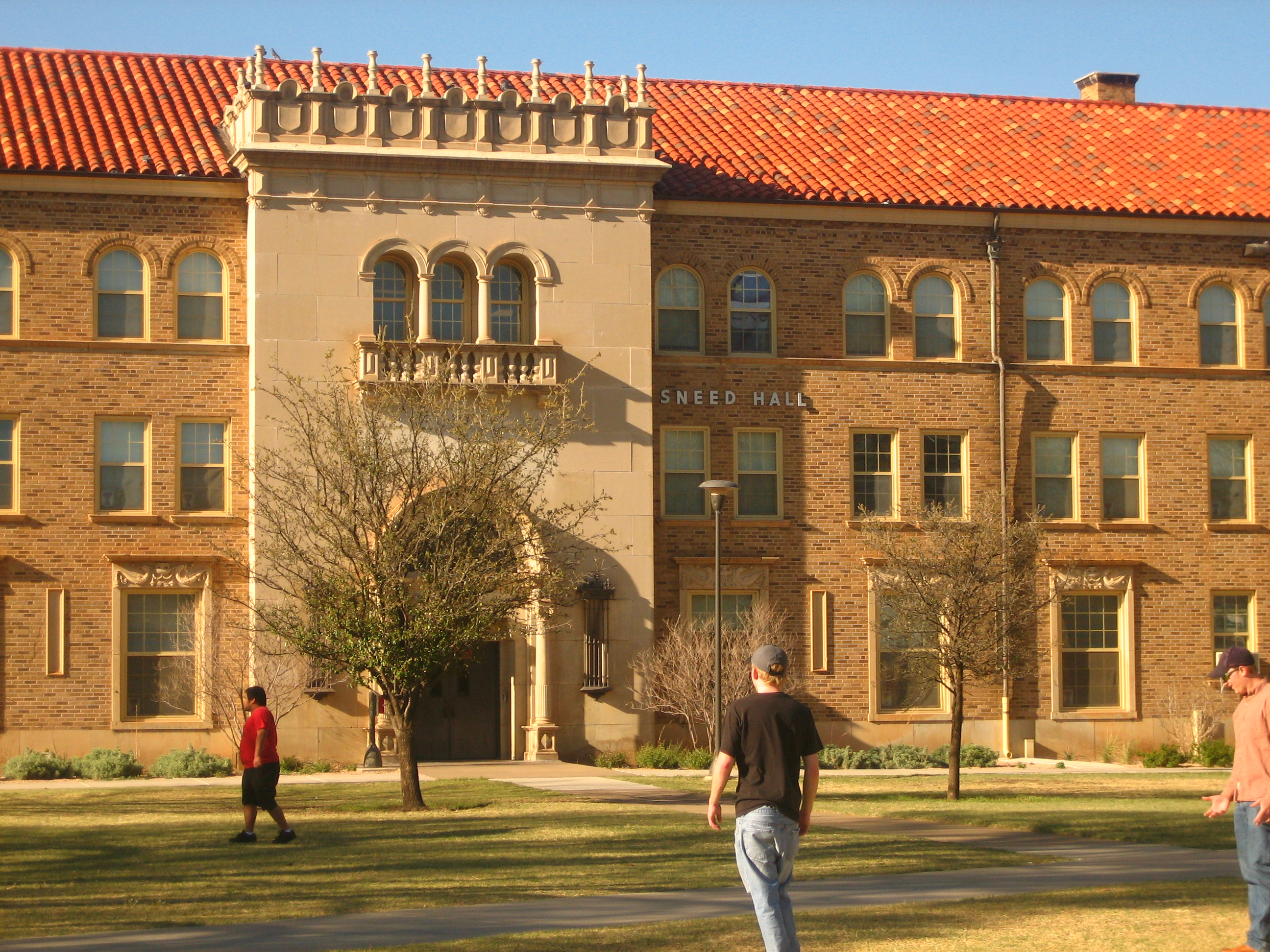 Sneed Hall at Texas Tech University in Lubbock, Texas